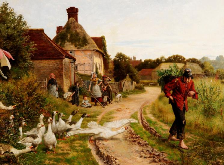 "Suspicion", 28.5 x 38 1/4" oil-on-canvas painting by Herbert William Weekes (fl. 1864-1904)